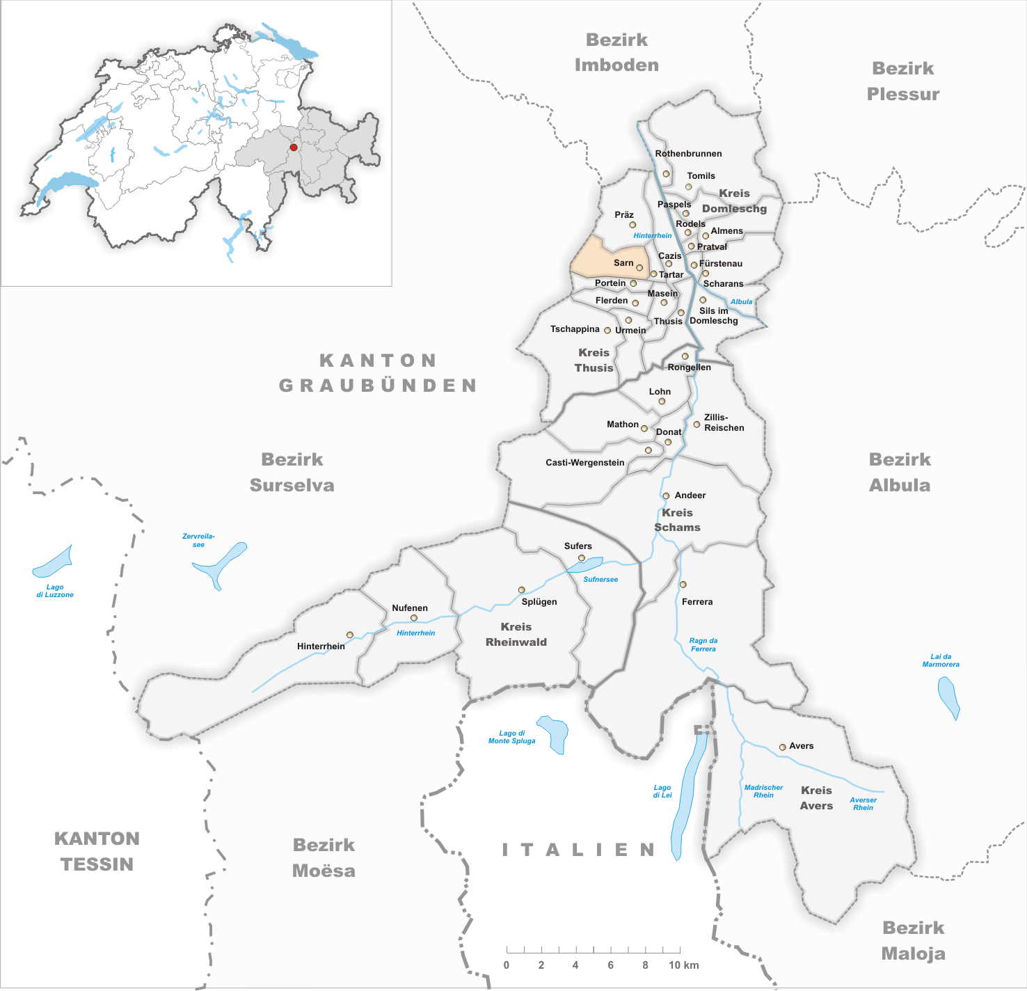 Municipality Sarn